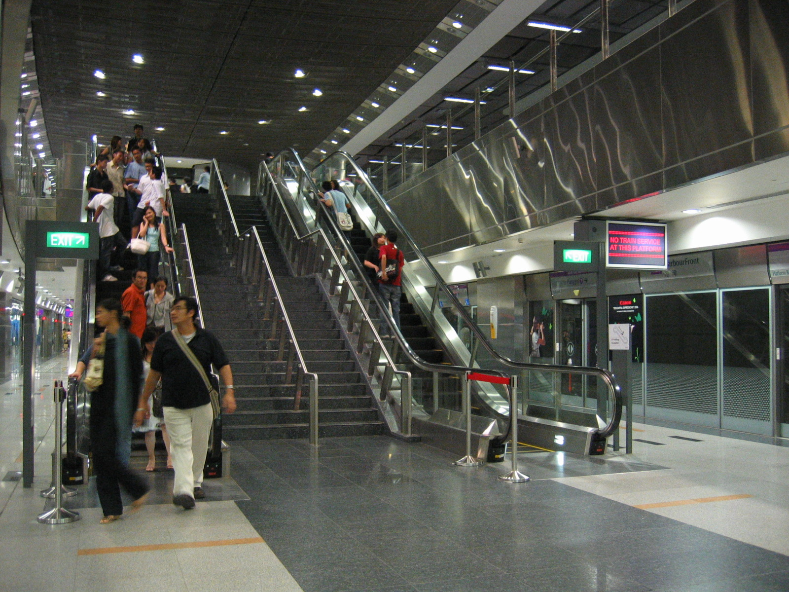 HarbourFront MRT Station.